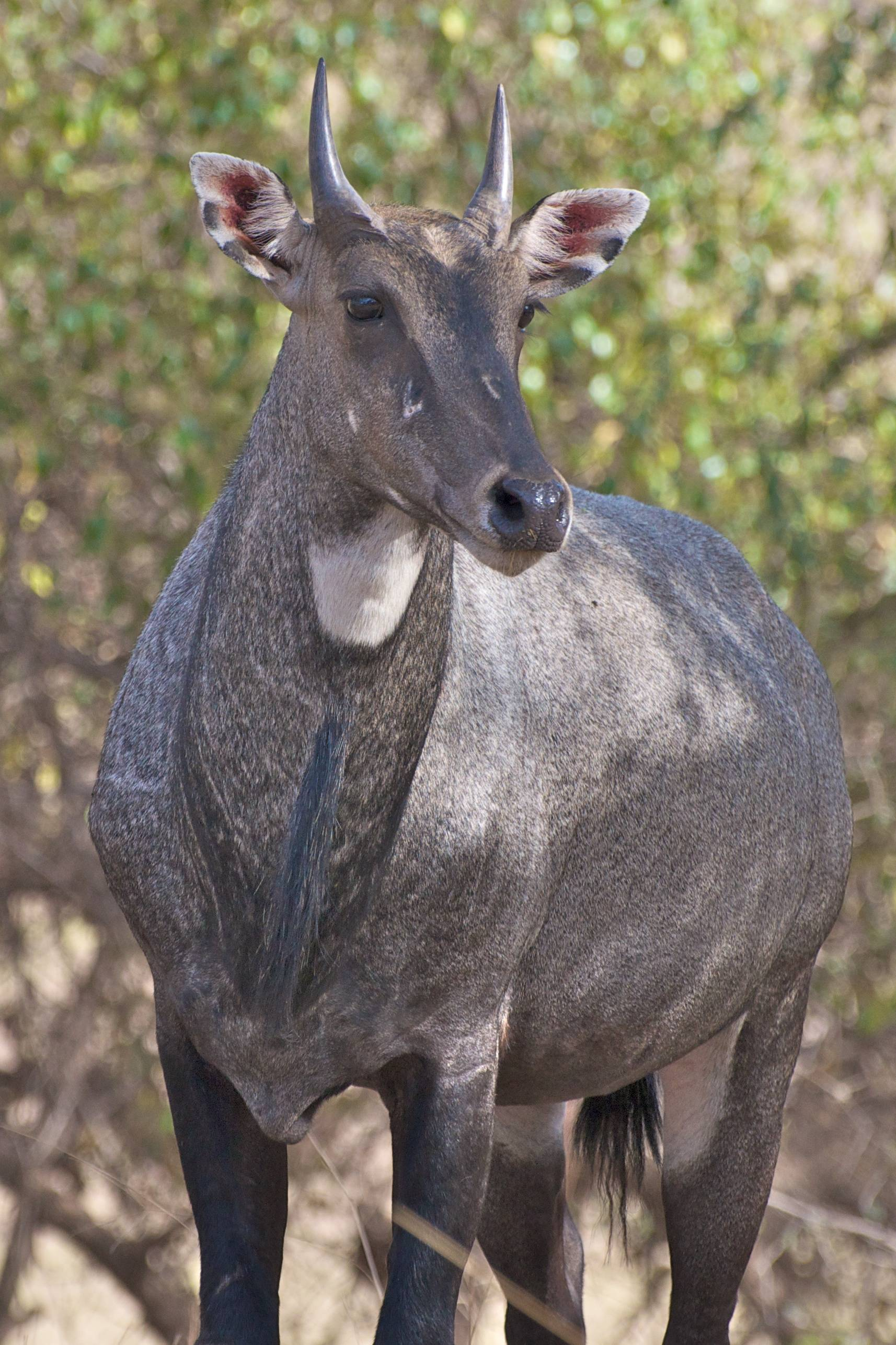 Nilgai (Boselaphus tragocamelus) at Ranthambore National Park, India